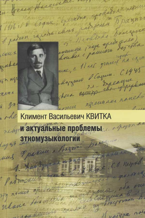 Книга Квитки К.В.